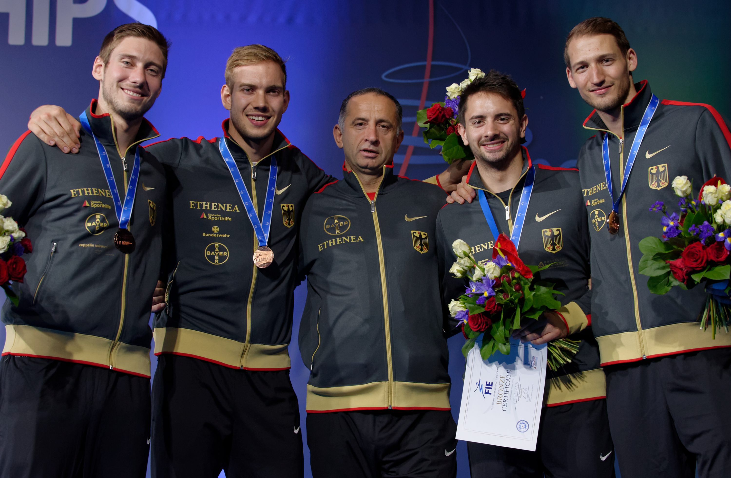 Germany (from left to right, Max Hartung, Benedict Wagner, Matyas Szabo and Nicolas Limbach) and national coach Vilmoș Szabo at the medal ceremony of the men's team sabre event of the 2015 World Fencing Championships on 17 July 2014 at the Olympic Stadium in Moscow.